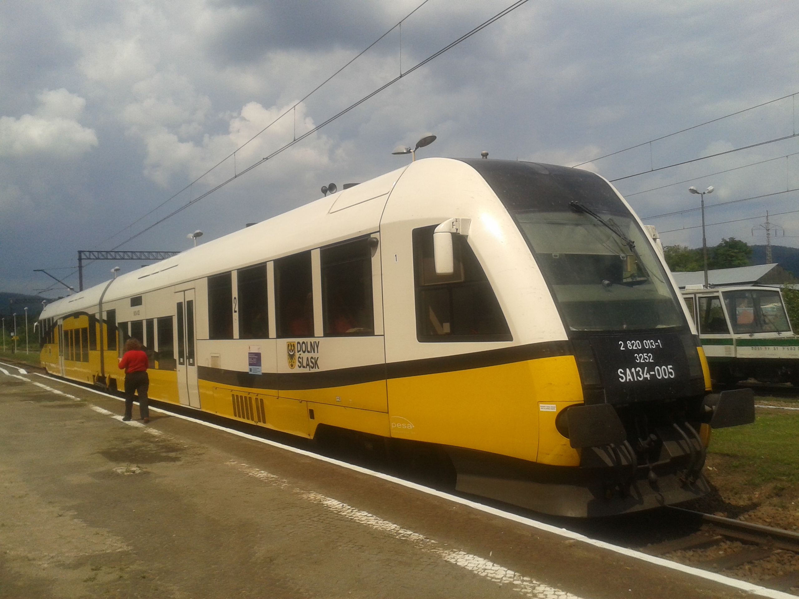 SA134-005 at Sędzisław station